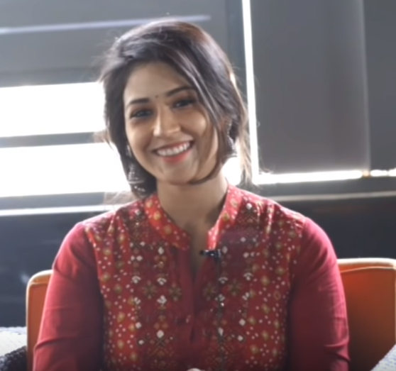 Priyanka Jawalkar Taxiwala Promotions